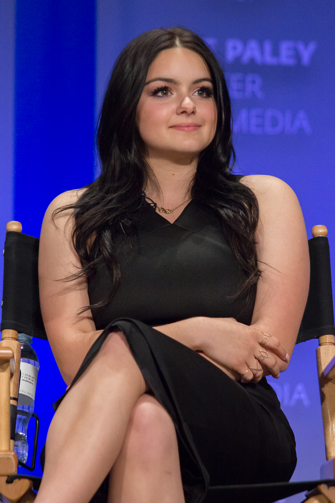 Ariel Winter at 2015 Paleyfest for Modern Family